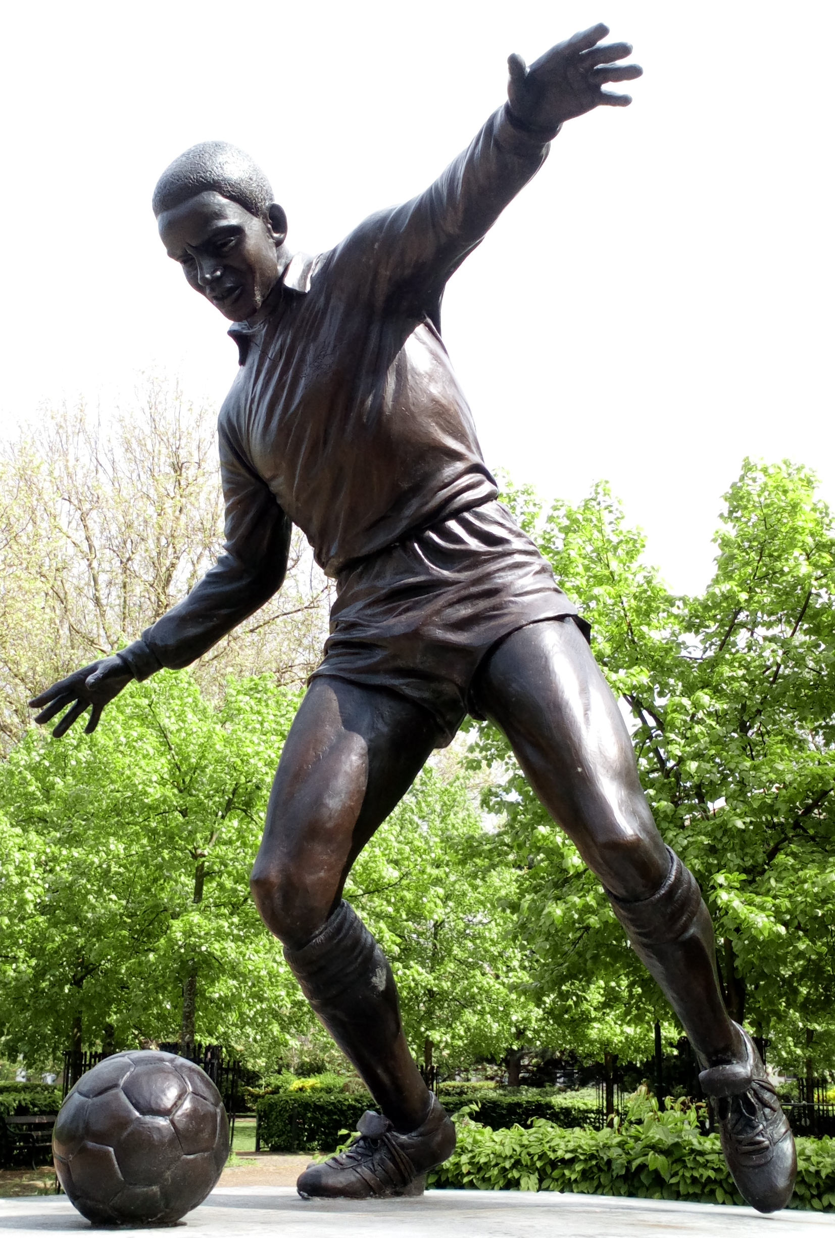 Sculpture of Laurie Cunningham by Graham Ibbeson, Coronation Gardens, Leyton, London.